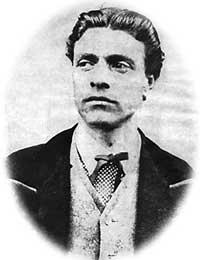 Photograph portrait of Vasil Levski (1837–73)